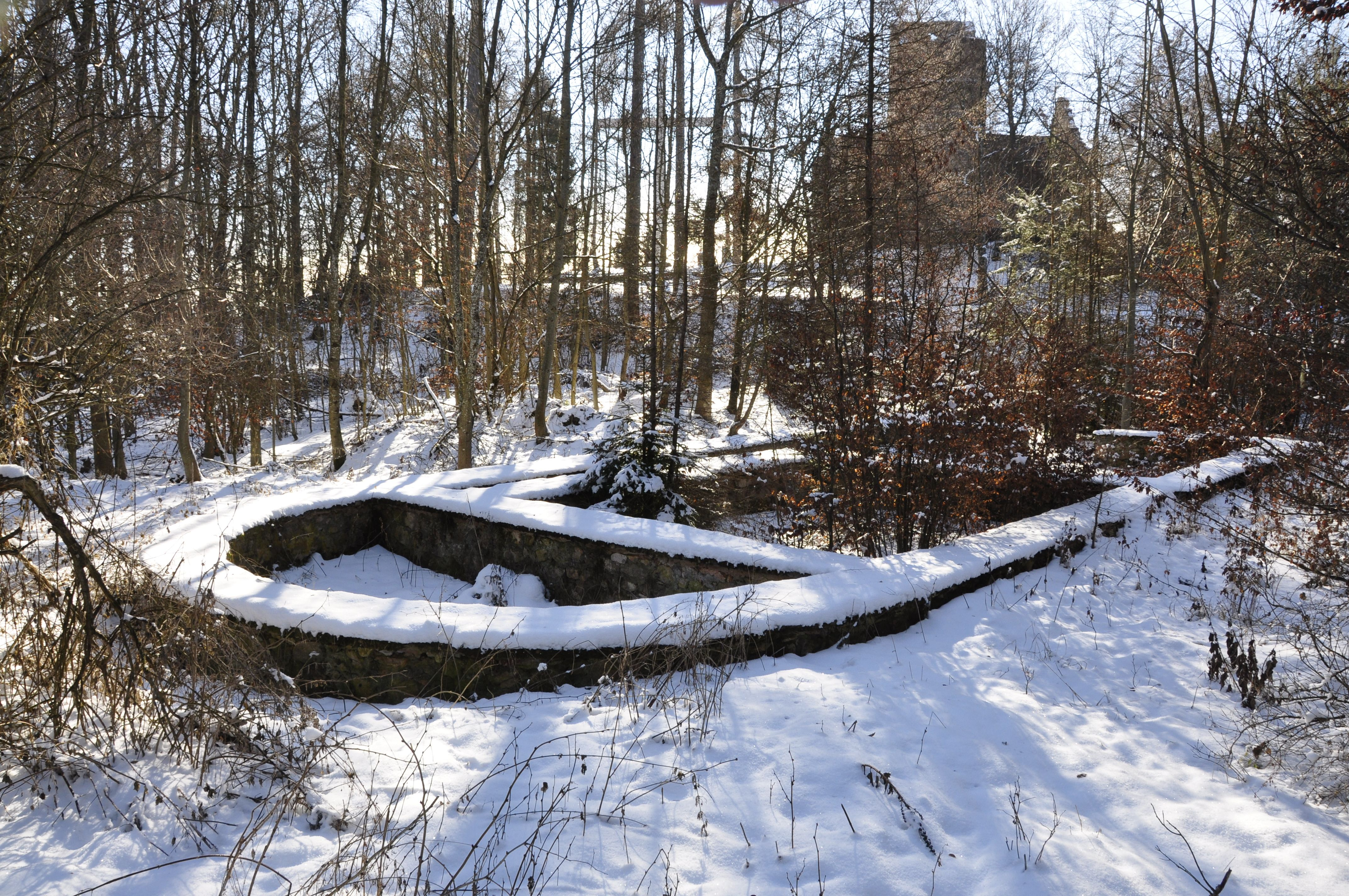 Base walls of the antique sanctuary on top of Mount Ulrich, district Woelfnitz, municipality Klagenfurt, Carinthia, Austria